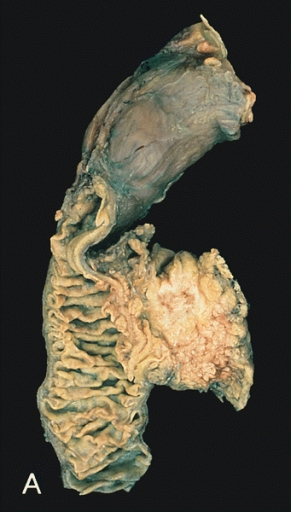 PANCREAS: DUCTAL ADENOCARCINOMA Whipple resection specimen showing a small ductal adenocarcinoma in the upper half of the head of the pancreas.